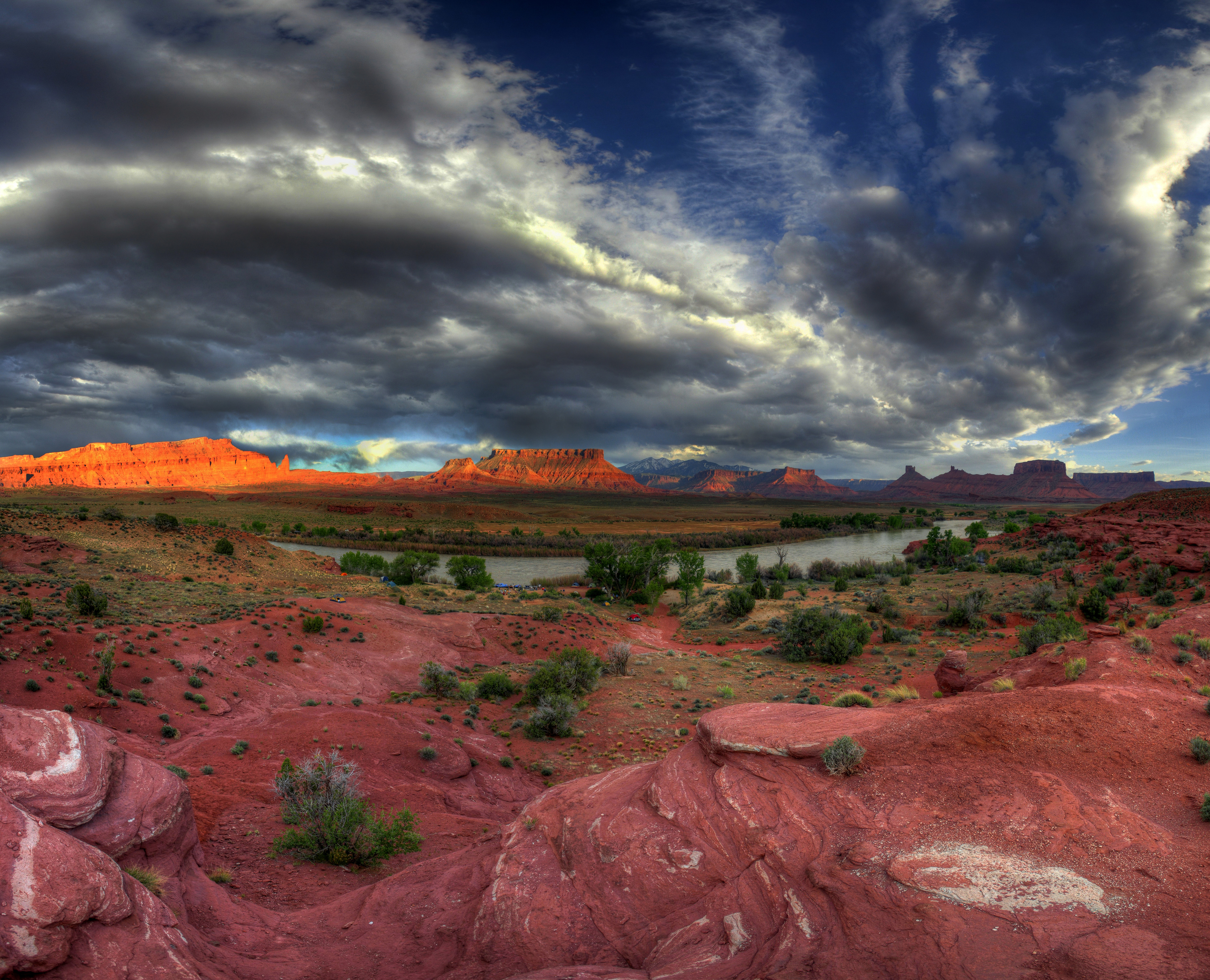 Middle Onion Camp on the Colorado River